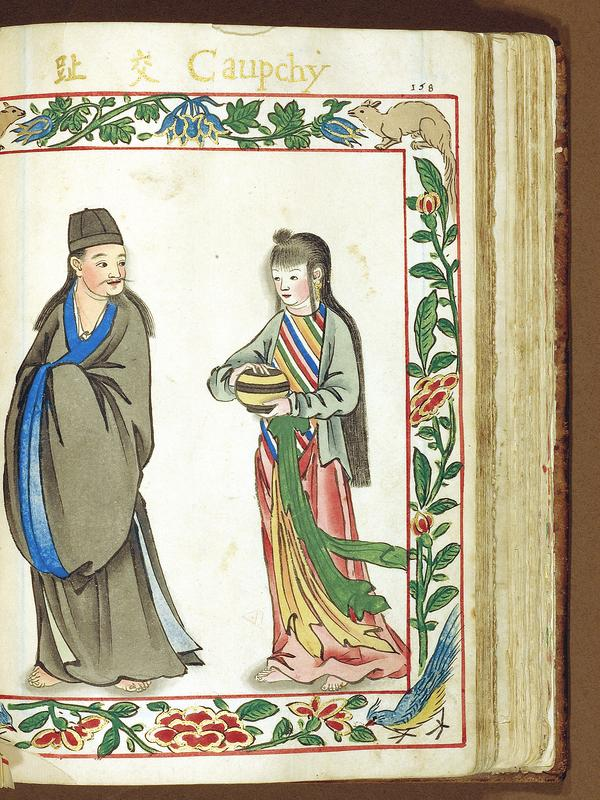 A pair of Vietnamese people in pre-colonial Philippines